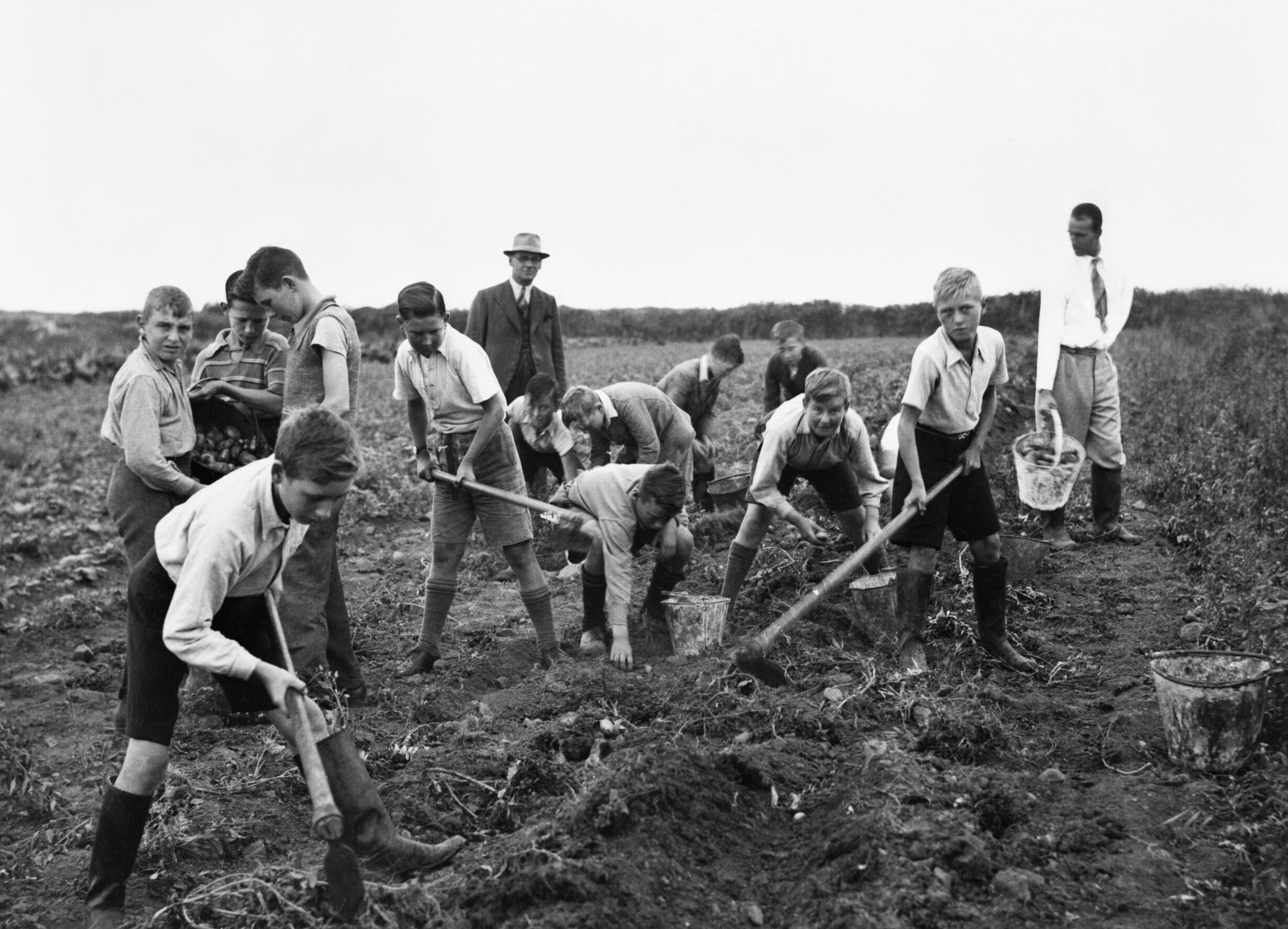 Evacuees from St George's Church of England School in Battersea, London, dig potatoes on a farm in Pembrokeshire during 1940. Boys from St George's Church of England School in Battersea, London, dig potatoes as part of a farming course held during their summer holiday whilst evacuated to Pembrokeshire, Wales in 1940.